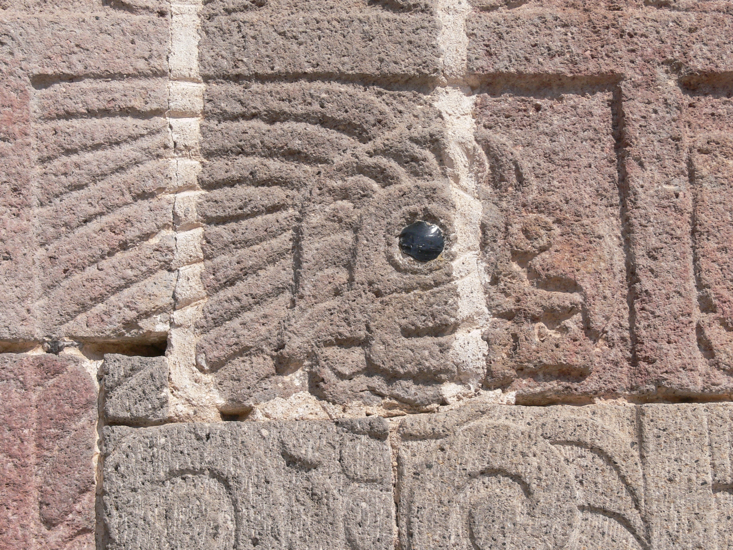 Palacio de Quetzalpalotl, Teotihuacán. Courtyard: Pillar with Quetzal bird. The eye is made of Obsidian.